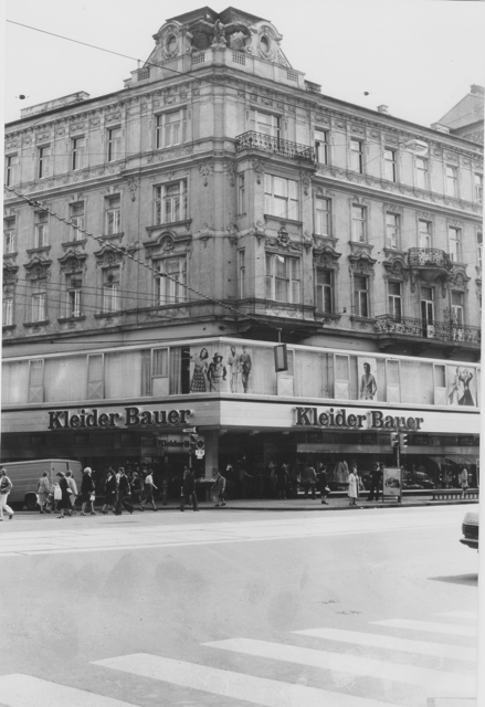 Old KLEIDER BAUER store in Vienna.